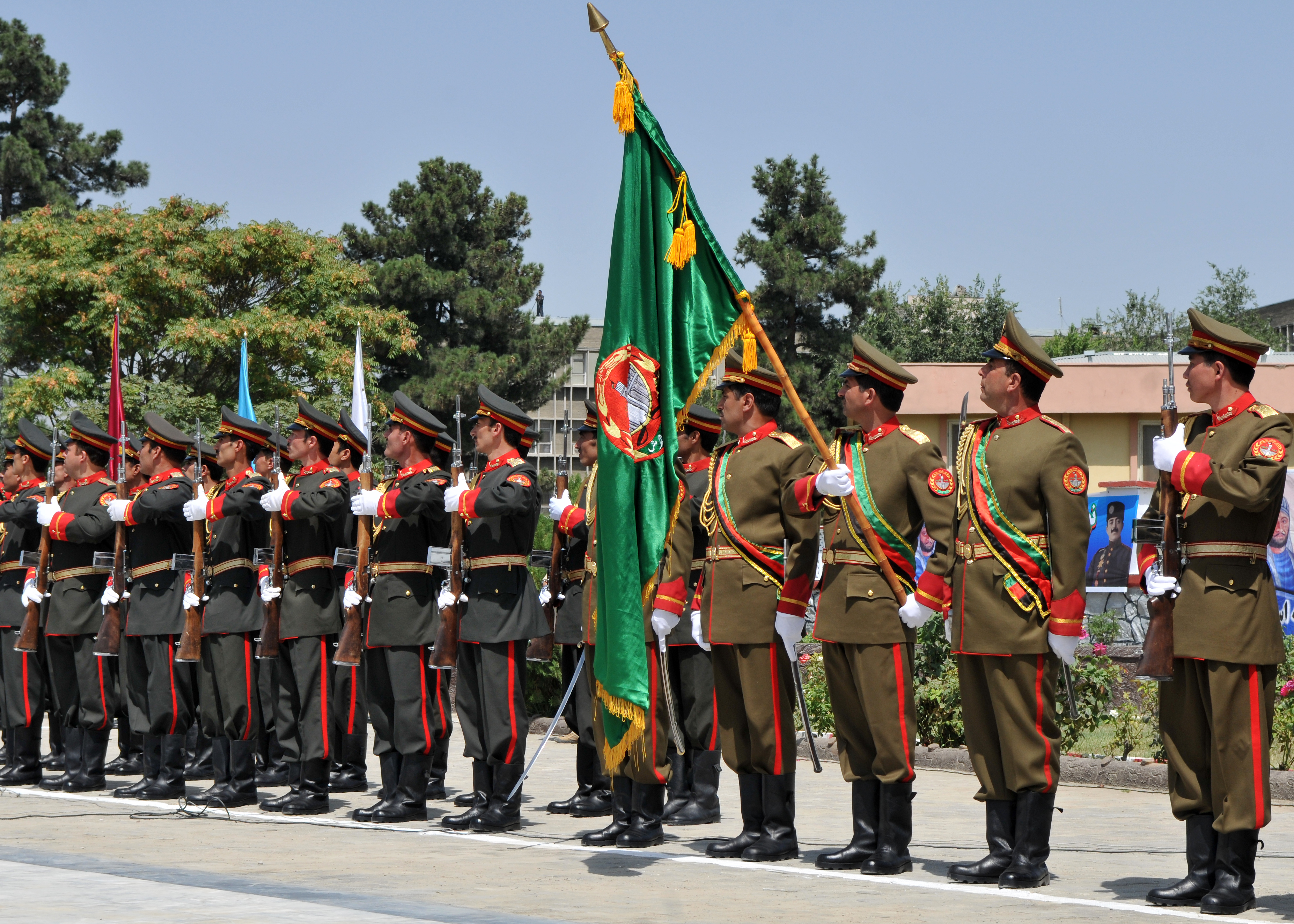 Participants in the Afghanistan Independence Day celebration held at the Ministry of National Defense in Kabul, Aug. 19, pay their respects during the playing of the Afghan national anthem. Marine Corps Gen. John R. Allen, commander of NATO and International Security Assistance Force troops in Afghanistan, and U.S. Ambassador to Afghanistan Ryan Crocker attended the ceremony. During the celebration, President Karzai placed a floral wreath at the base of the marble independence memorial near his palace. Afghan Independence Day is celebrated in Afghanistan on Aug. 19 to commemorate the Treaty of Rawalpindi in 1919. The treaty granted independence from Britain; although Afghanistan was never officially a part of the British Empire. (U.S. Air Force photo by Master Sgt. Michael O'Connor) (Released)